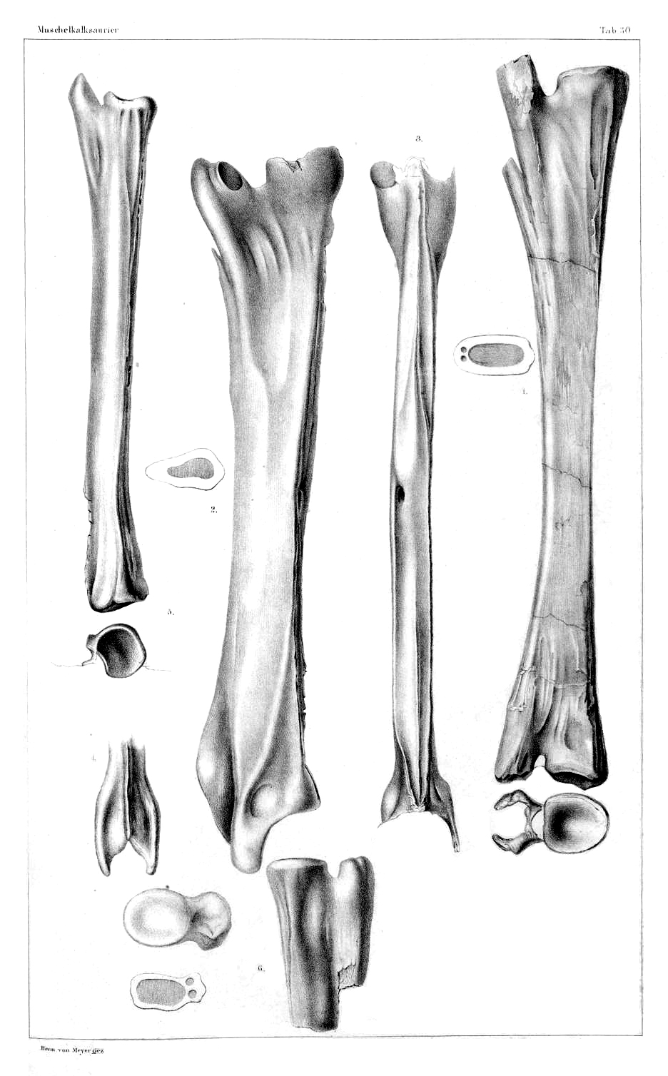 Original drawings of the type material of Tanystropheus conspicuus von Meyer 1852 from the Upper Muschelkalk (Middle Triassic) of Bayreuth, northern Bavaria (Franconia), Germany. “Cervical vertebra” in lateral and “posterior” views and cross section (this specimen has been glued together from the posterior halves of two cervicals by a collector[1]) Cervical vertebra in left lateral view and cross section (lectotype, designated by Wild 1973[2]) Same cervical as in 2. in ventral view Same cervical as in 2., anterior end in dorsal view Cervical vertebra with pre-zygapophyses missing in left lateral and anterior views A ?posterior cevical in ?right lateral and ?posterior views and cross section All specimens are figured in natural size (width of the frame of the plate: almost 23 cm) ↑ a b Emil Kuhn-Schnyder (1973): Die Triasfauna der Tessiner Kalkalpen. Neujahrsblatt 1974, Naturforschende Gesellschaft in Zürich (PDF 25 MB), p. 50 ↑ a b according to the data sheet on Tanystropheus conspicuus at the website of the Euerdorf Triassic Museum (Terra Triassica), Landkreis Bad Kissingen, Bavaria, Germany